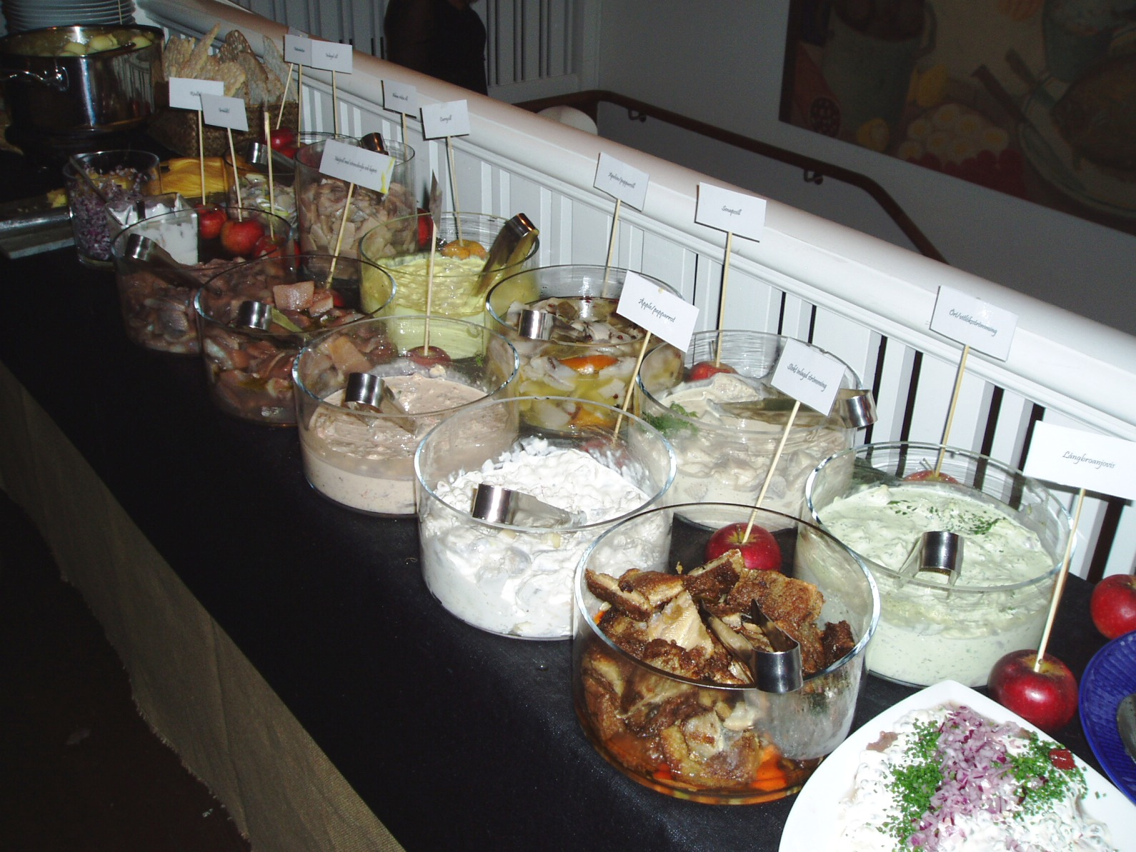 swedish Christmas food, diffrent kinds of herring